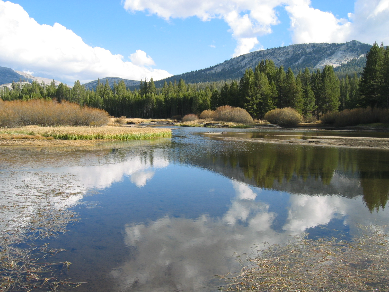 A wide spot in the Tuolumne River as it passes through Tuolumne Meadows.